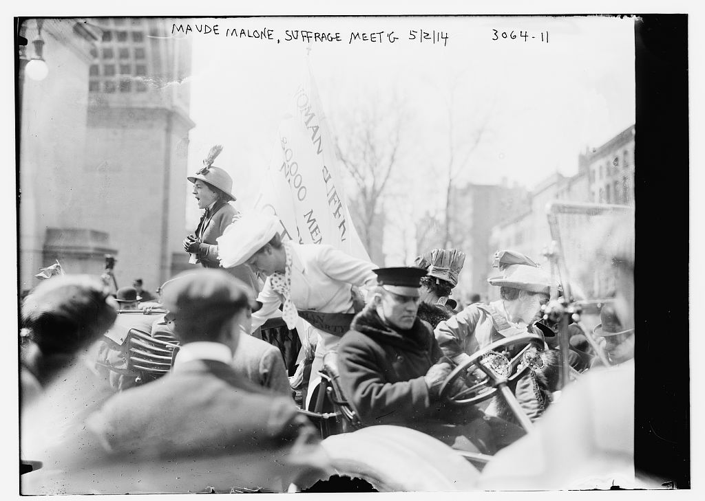 According to : "The Library Employees' Union, founded in 1917 in New York City, was the first union of public library workers in the United States. A major focus of the union was the inferior status of women library workers and their low salaries. The union's main spokesperson, Maud Malone, had been active in the reinvigoration of the women's suffrage movement that occurred in the first decade of the twentieth century. Advocating the affiliation of library workers with women's organizations and with the working class, the union applied the tactics used by suffragists and other reformers to the library world. "